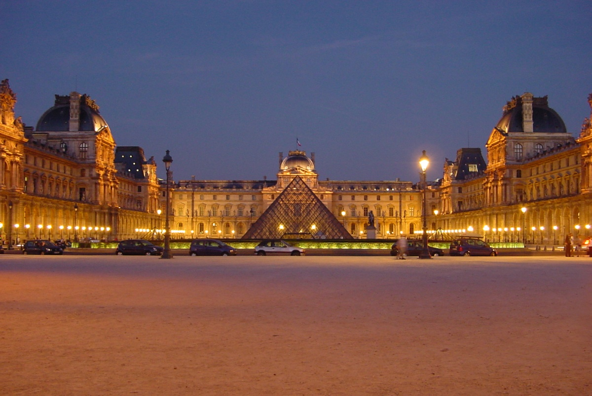 The court of the Louvre with its pyramid at night.